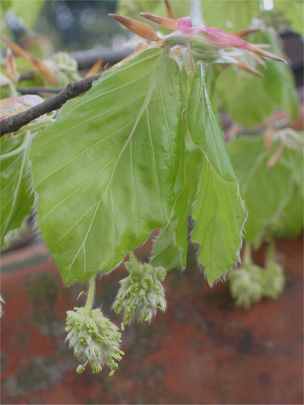 Fagus sylvatica inflorescens